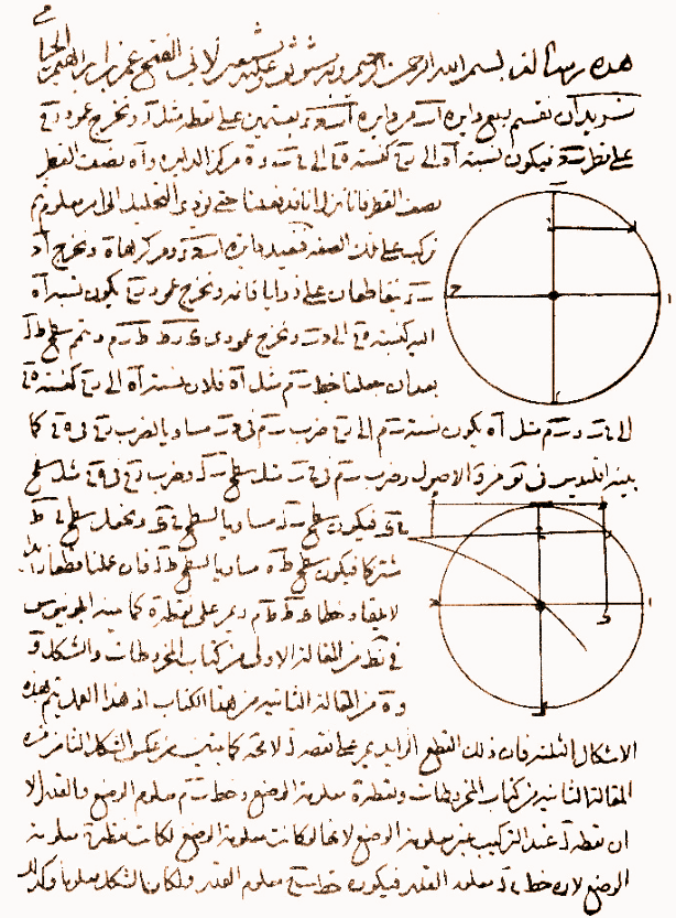 The first page of an untitled manuscript by Khayyam